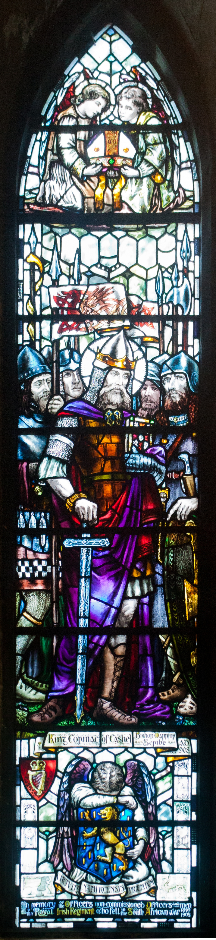 Stained glass window in the east wall of the north transept, depicting King Cormac of Cashel as bishop, warrior and scribe. Designed by Sara Purser (died 1943), painted by Alfred E. Child (died 1939), and executed by An Túr Gloine in Dublin in 1906.